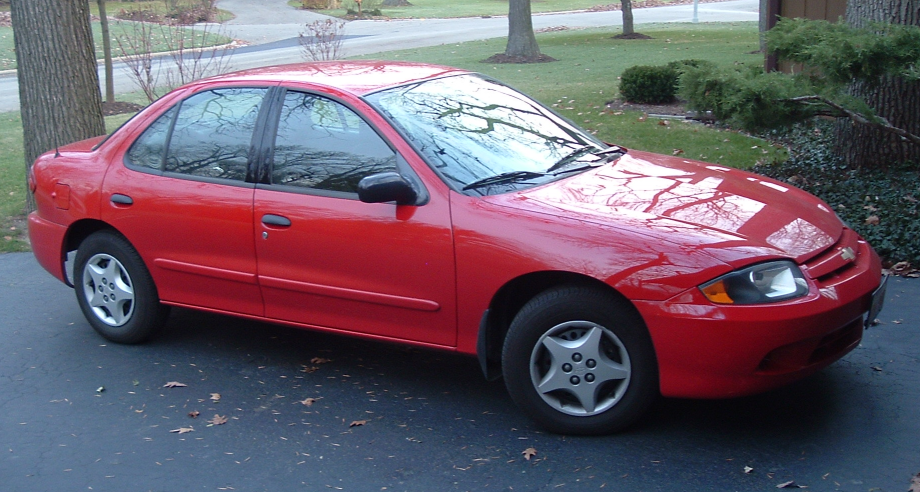 A 2005 Cavalier. The 2005 will be the last model year for the car.